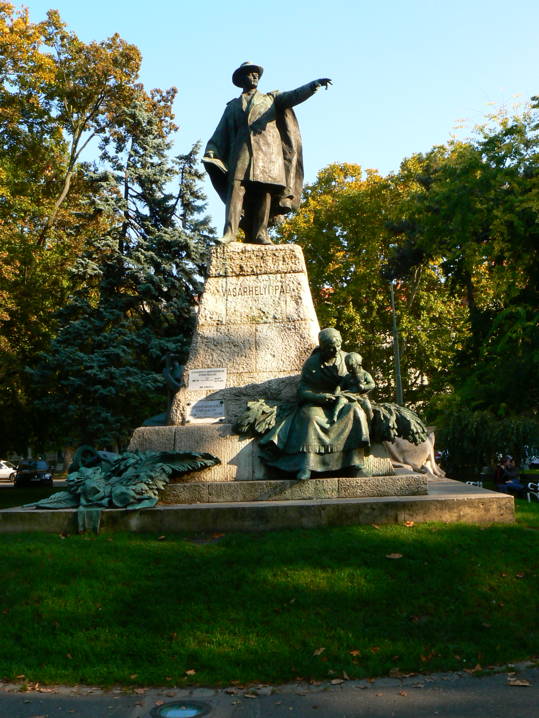 own work